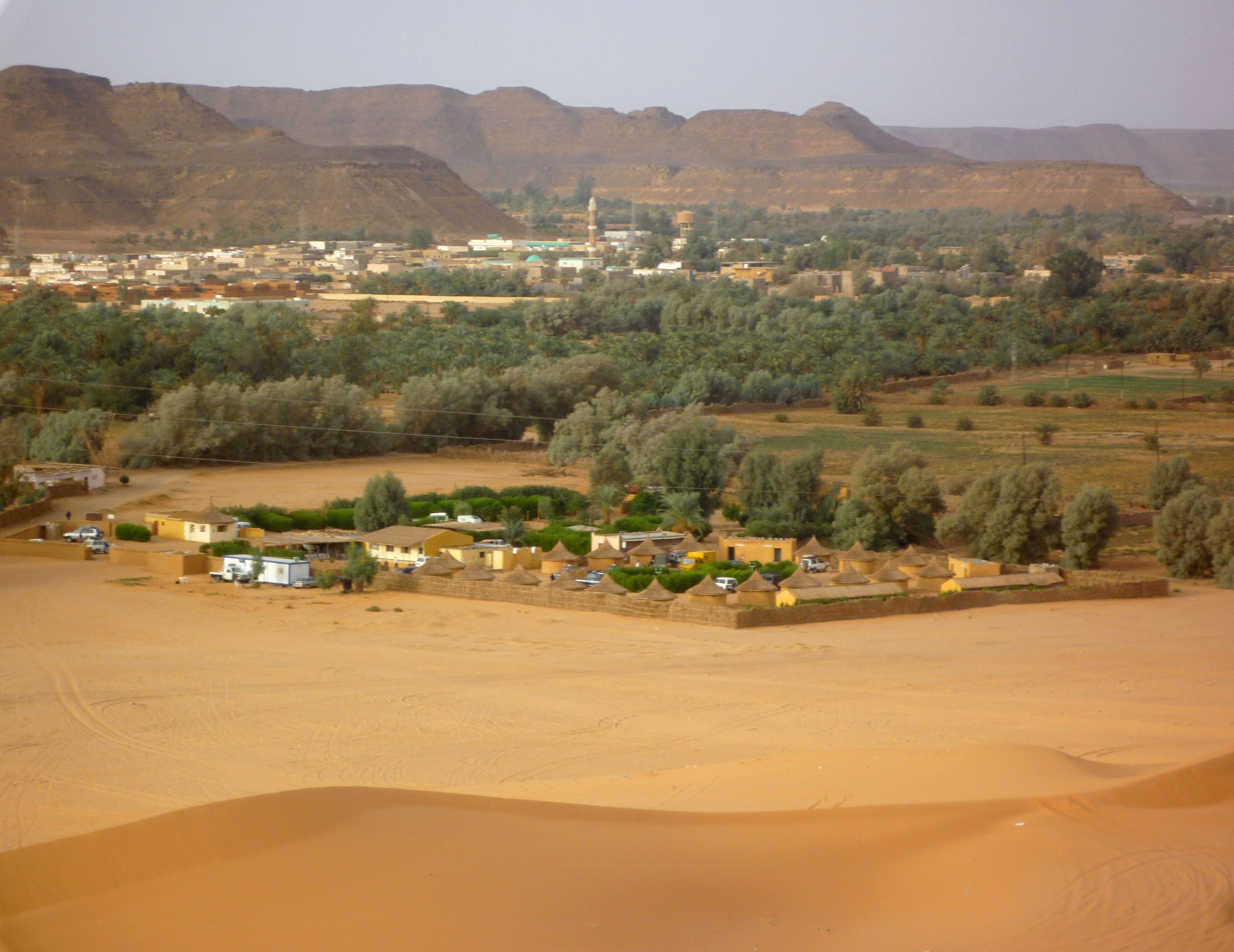 A Saharan oasis town located in the Fezzan region, southwestern Libya.